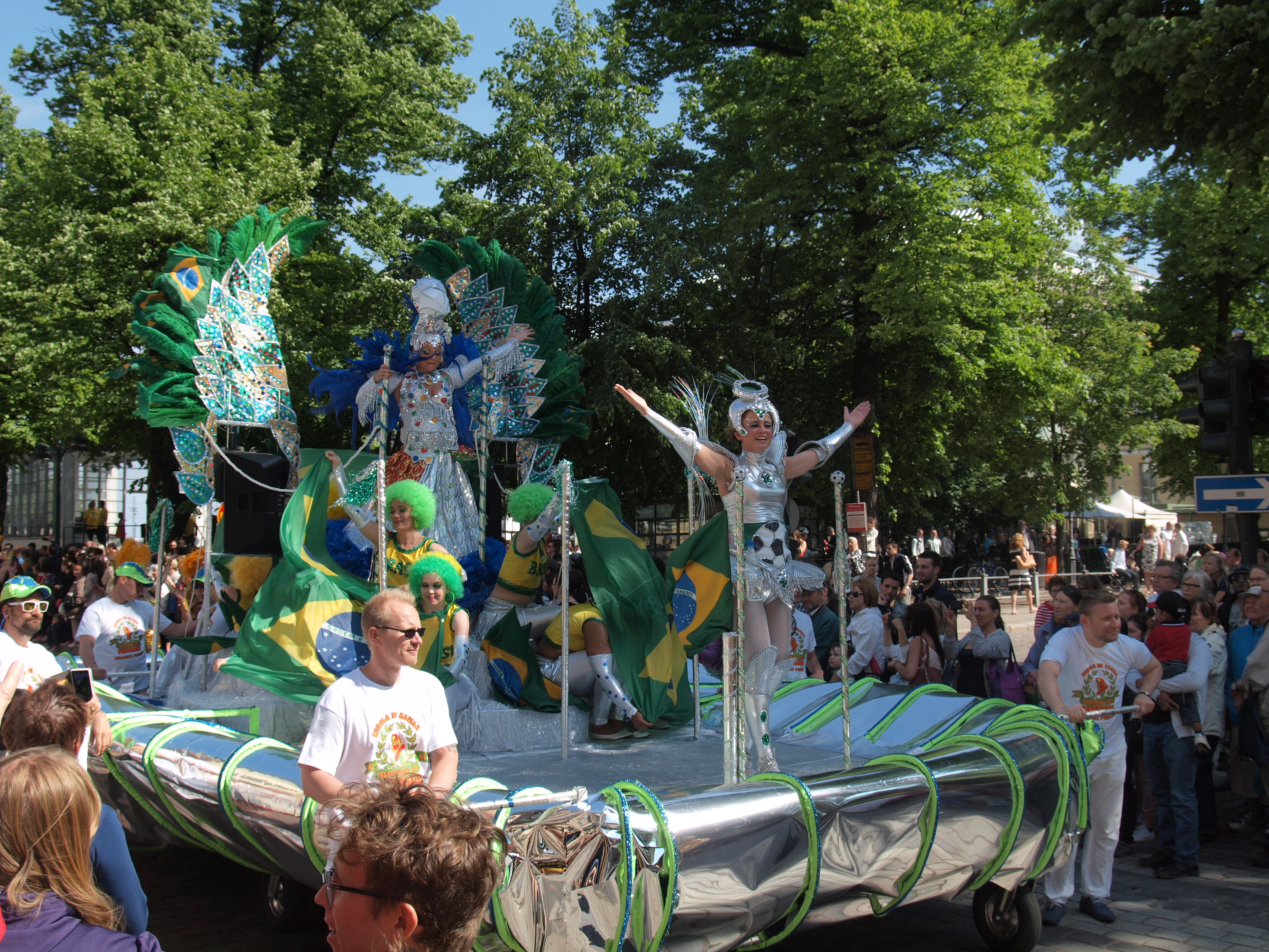 Império do Papagaio, Helsinki's samba school, at the Helsinki Samba Carnaval 2014 in downtown Helsinki, Finland.